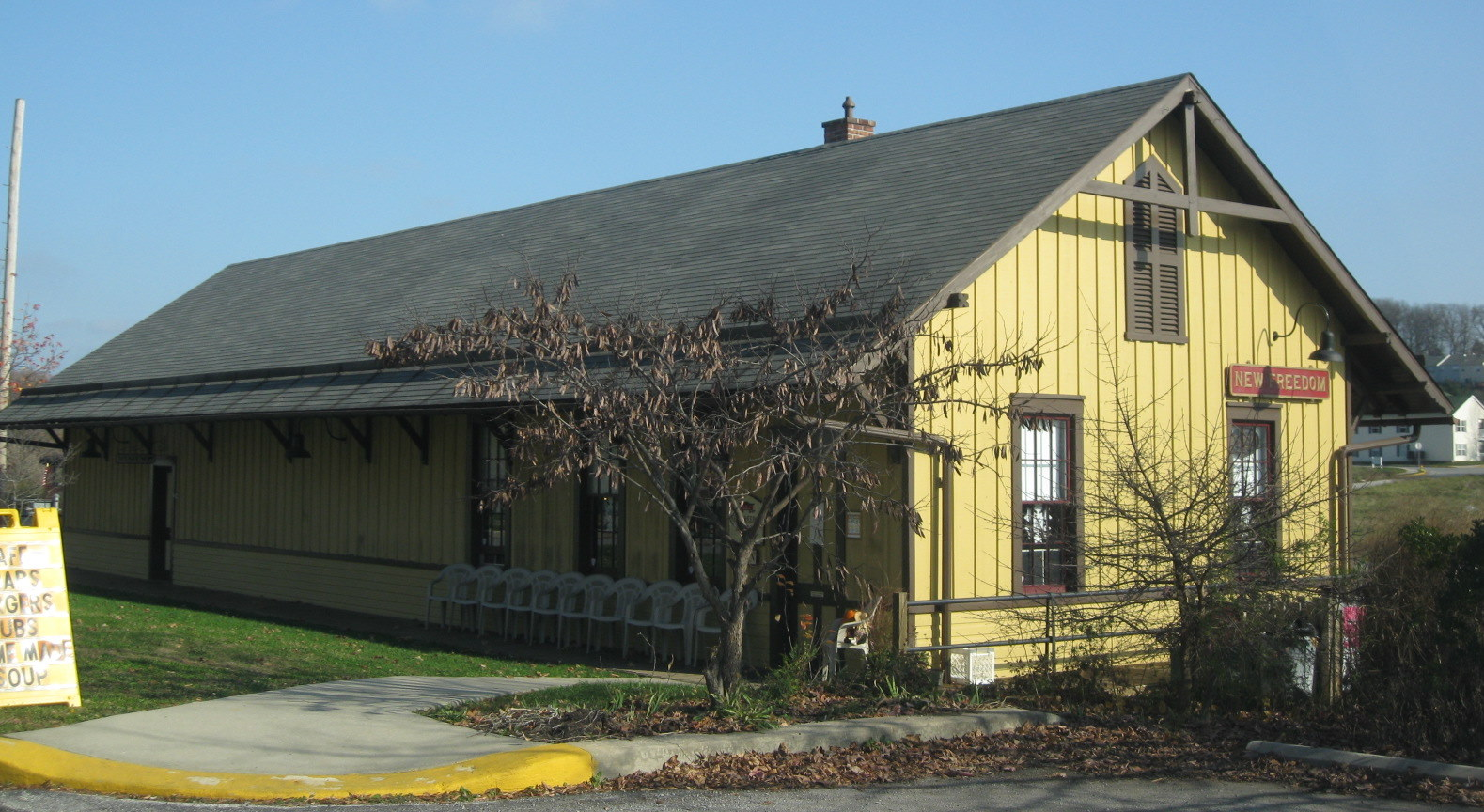 Former Northern Central Railway Station, New Freedom, Pennsylvania.